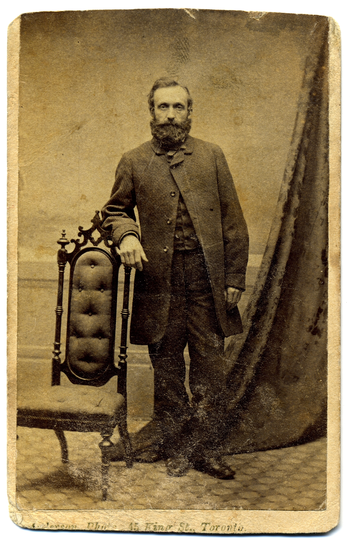 Photographic portrait labelled "Grandfather Bowell". Originally identified by the Hastings County Historical Society as being of John Bowell, father of Mackenzie Bowell . The photo was taken by Robert W. Anderson of 45 King Street, Toronto (active 1867-1873), making the picture more likely to be of Mackenzie Bowell (born 1824).